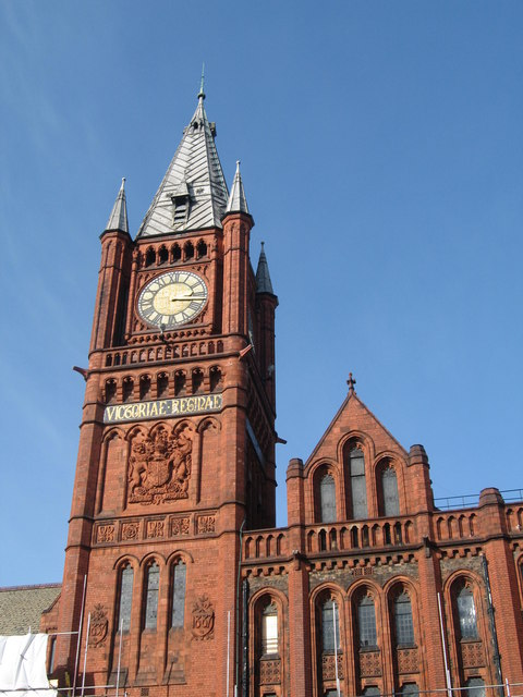 Victoria Clock Tower, Liverpool University